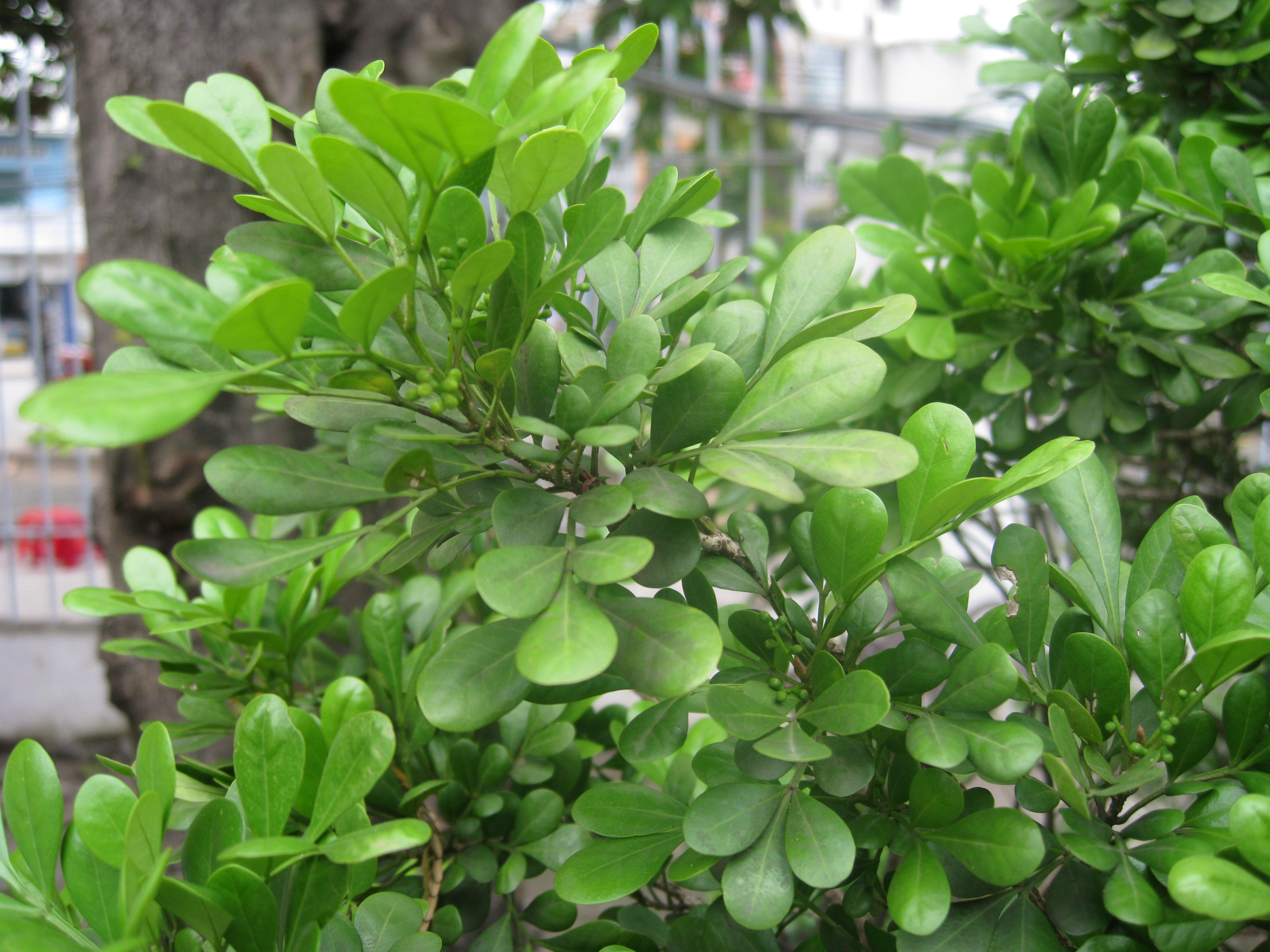 Aglaia duperreana.